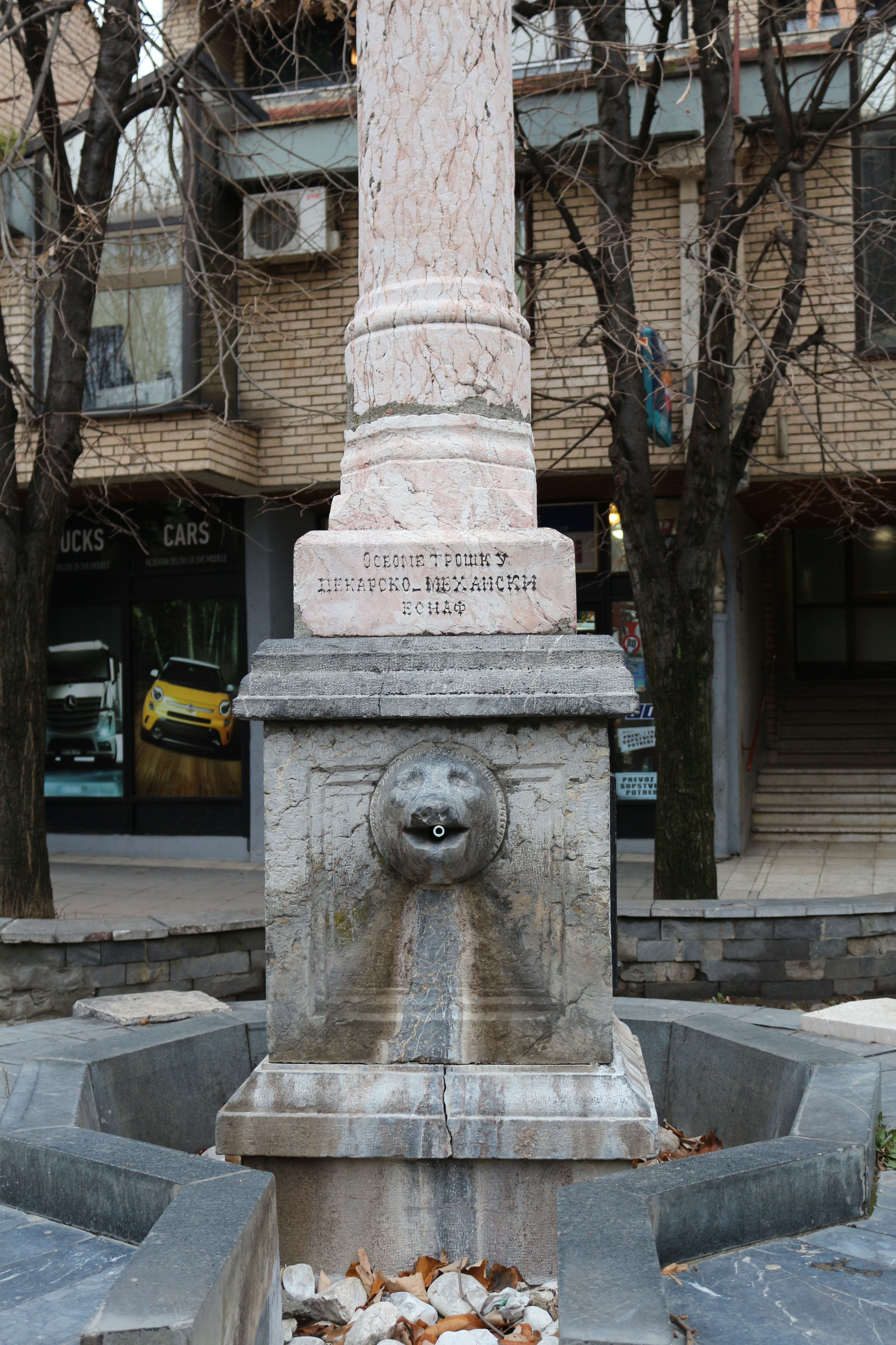 The fountain in Uzice